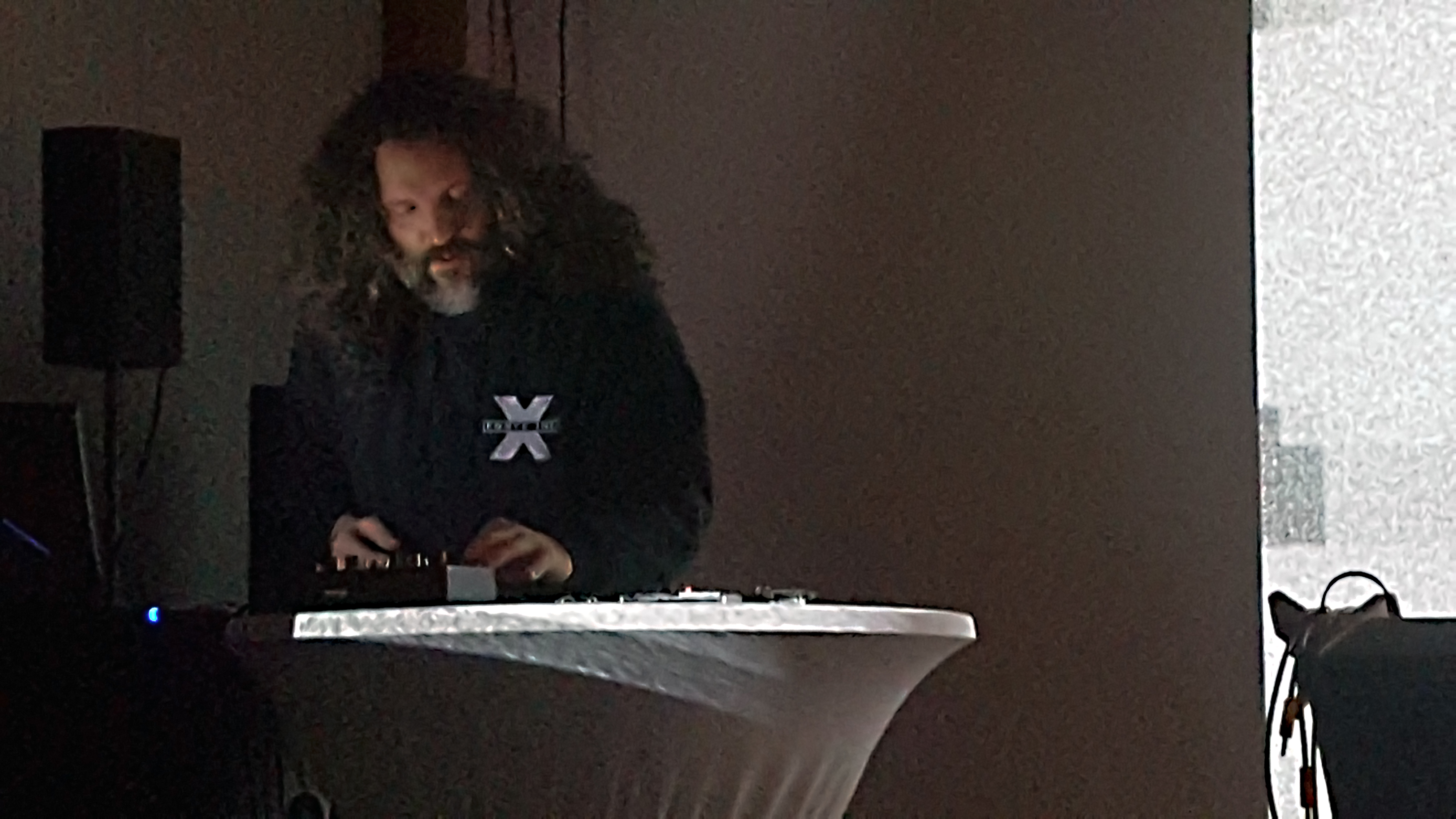 Siegfried Kärcher - Force Inc. Music Works - Live Concert Xerox Exotique #039, Institut für Neue Medien, Frankfurt, 16.04.2019